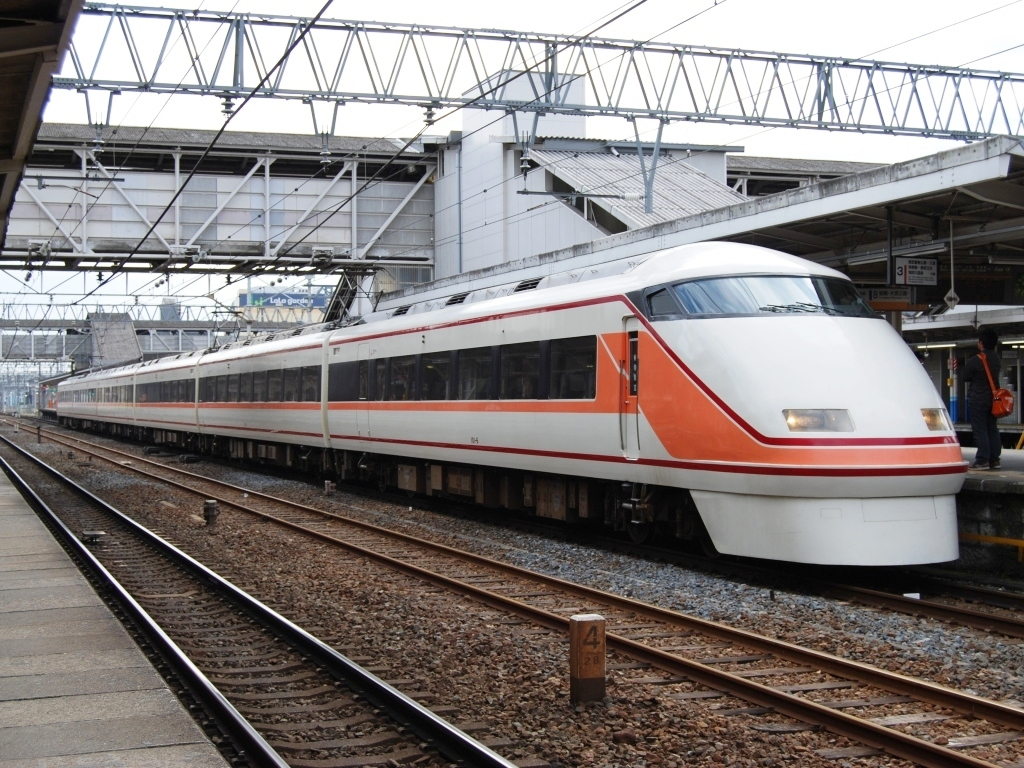 Tobu 100 series EMU set 101 on the Spacia Kinu 105 service at Kasukabe Station